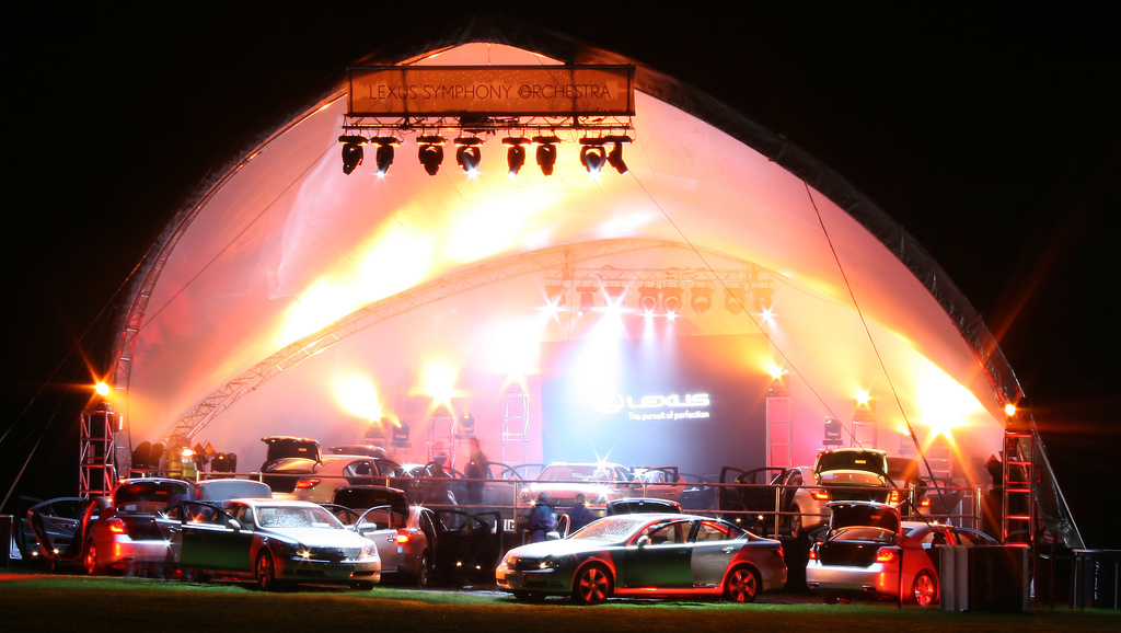 Lexus Symphony Orchestra